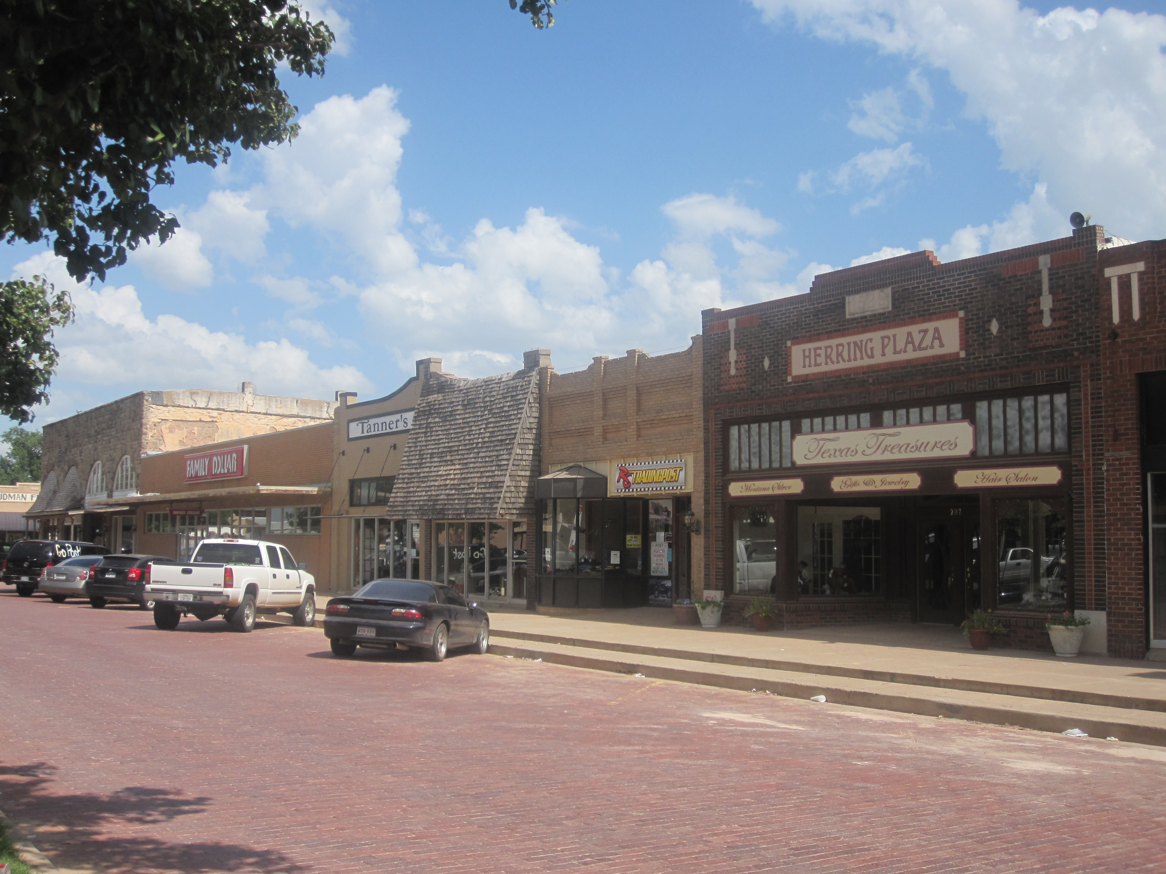 I took photo with Canon camera in Post, TX.